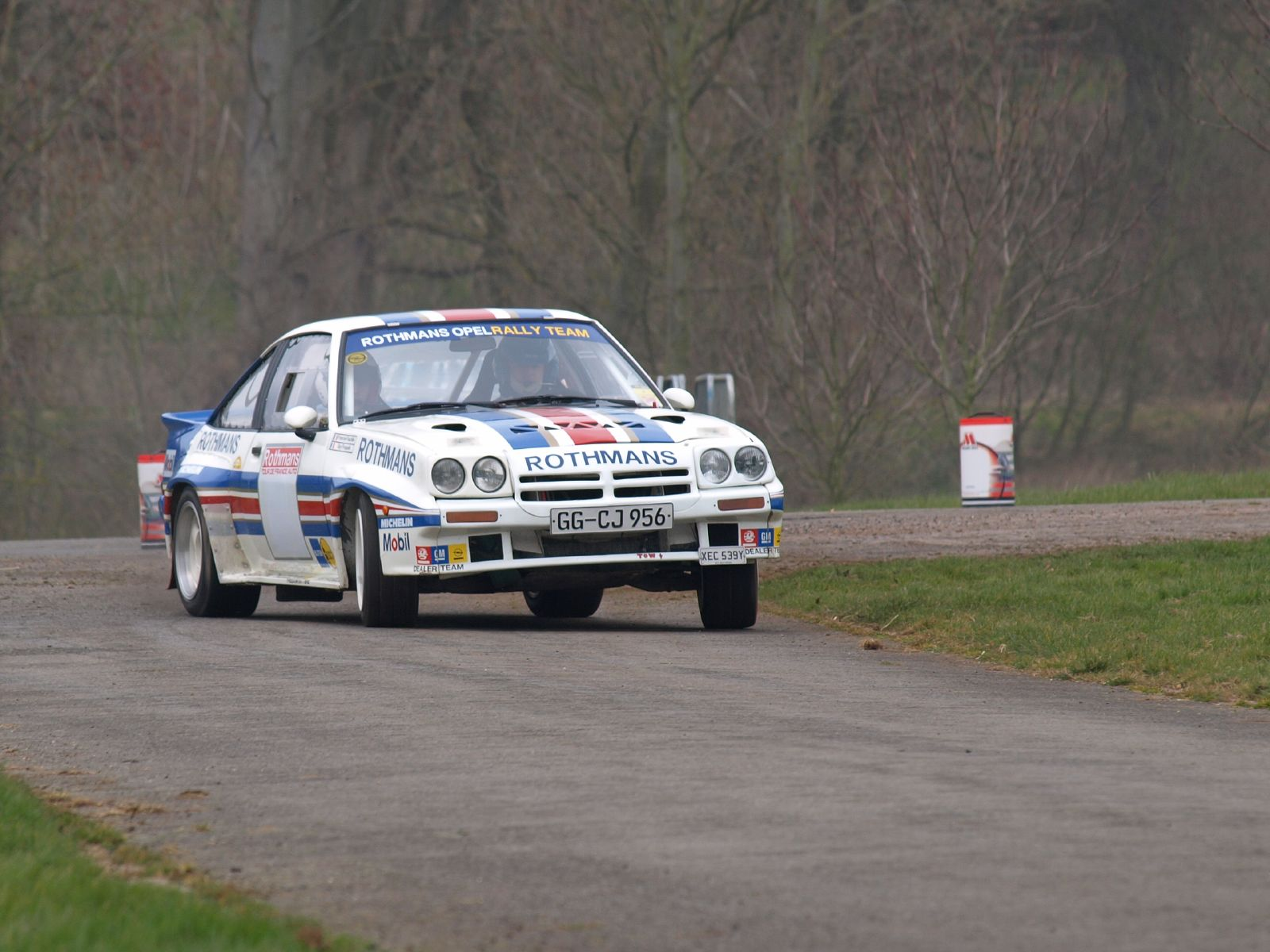 Guy Fréquelin's Opel Manta 400 driven at Race Retro 2008, the International Historic Motorsport Show, at Stoneleigh Park, Coventry, England.